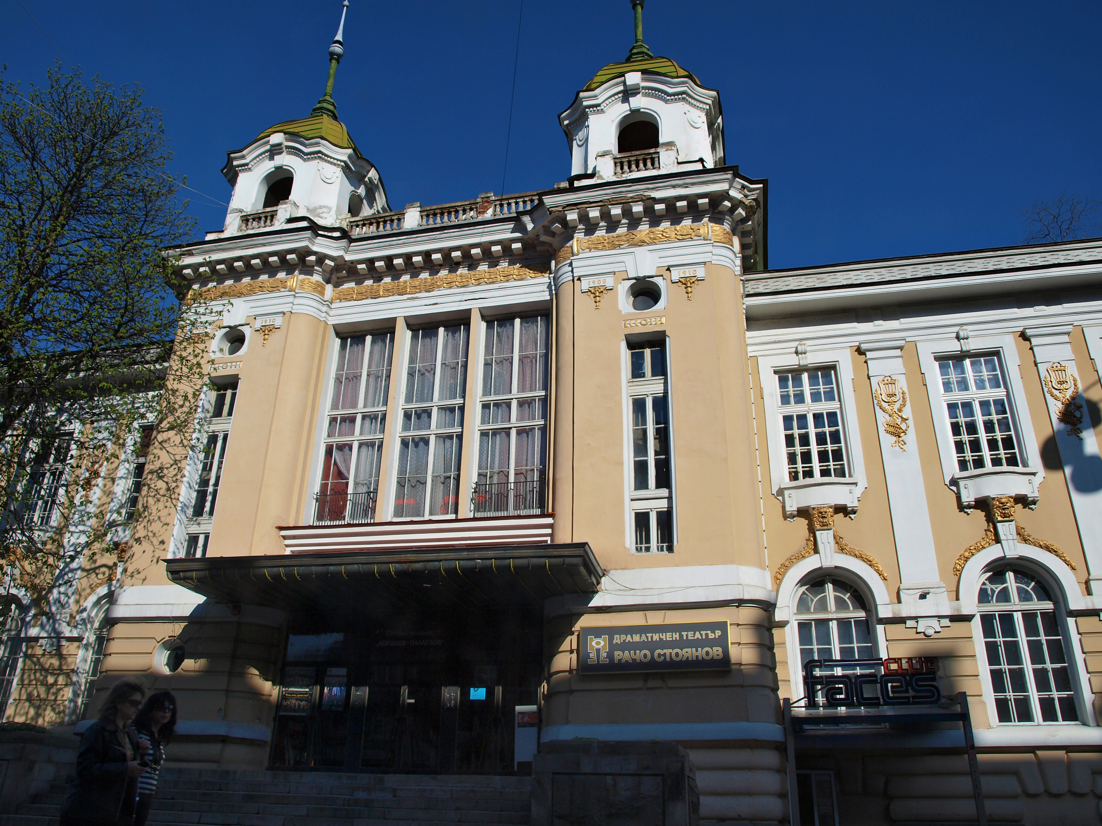 Racho Stoyanov Dramatic Theatre, Gabrovo